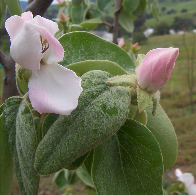 Quince flowers